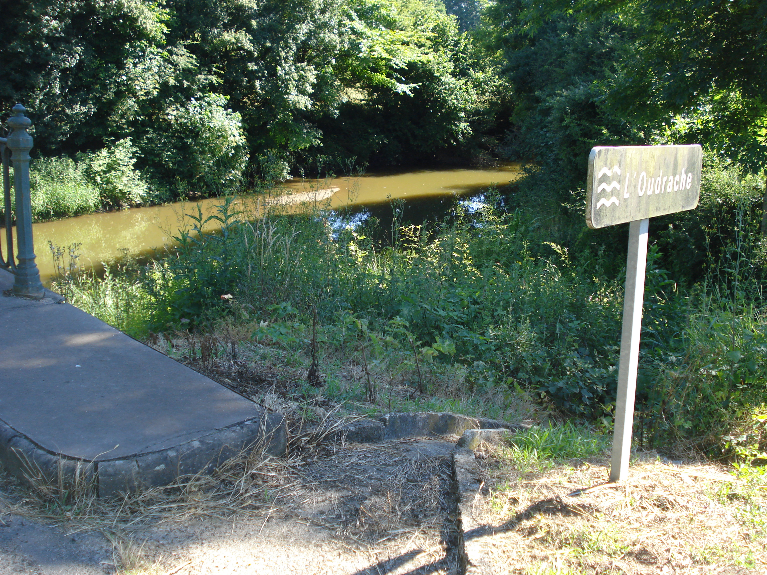 The Oudrache river at Saint-Léger-lès-Paray (Saône-et-Loire)